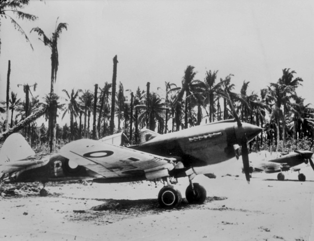 Milne Bay, Papua. Curtiss P-40E Kittyhawk fighter aircraft of No. 77 Squadron RAAF in the dispersal area at Gurney Strip, Milne Bay, from which the Squadron operated. The photograph was taken shortly after the area was bombarded by Japanese artillery and debris can be seen on the tailplane of the aircraft in the foreground. (Donor: R. Cresswell)